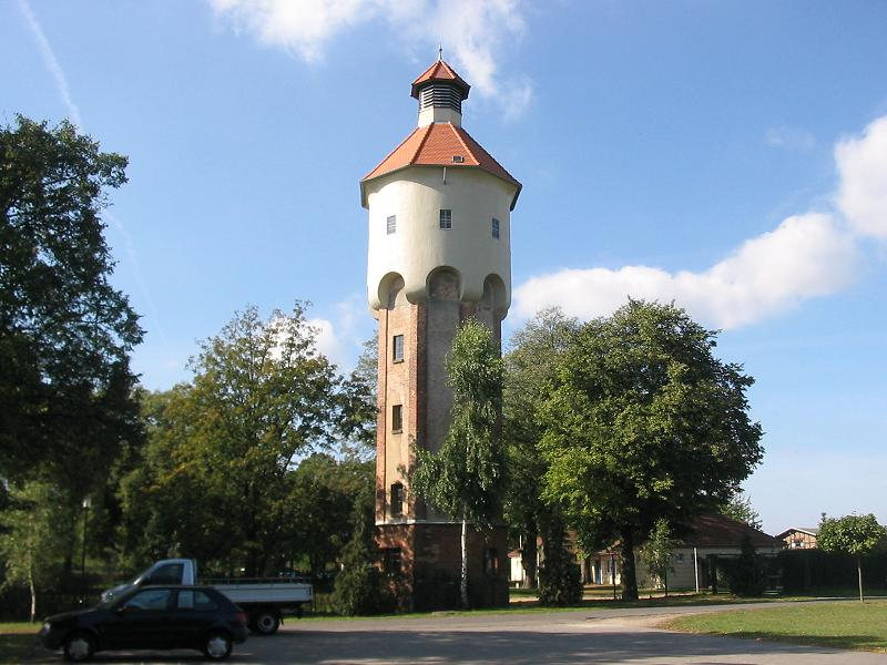 Water tower in Niemegk. The town Niemegk is a part of the Potsdam Mittelmark, state Brandenburg, Germany.